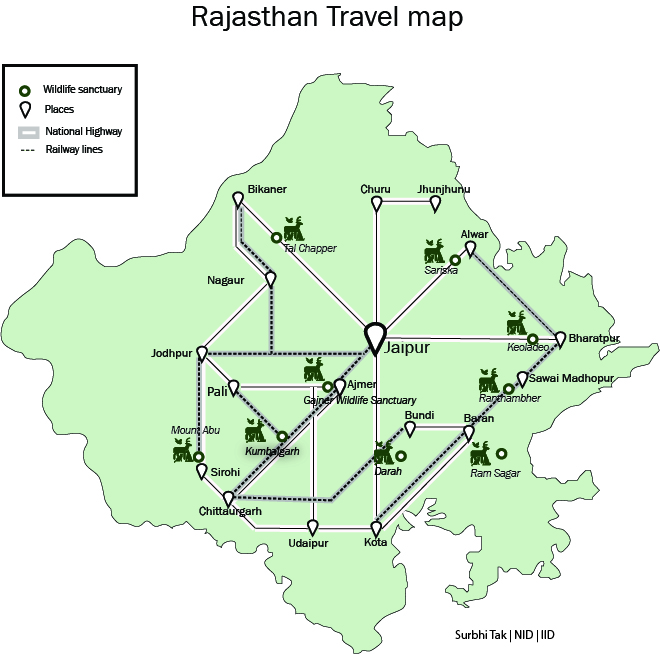 This schematic map talks about wildlife sanctuary at different places in Rajasthan.